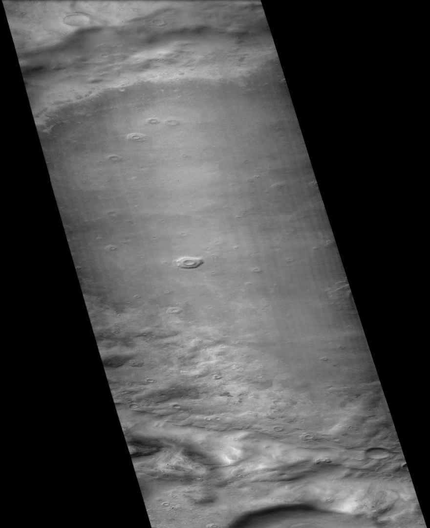 Huxley Crater, as seen by CTX